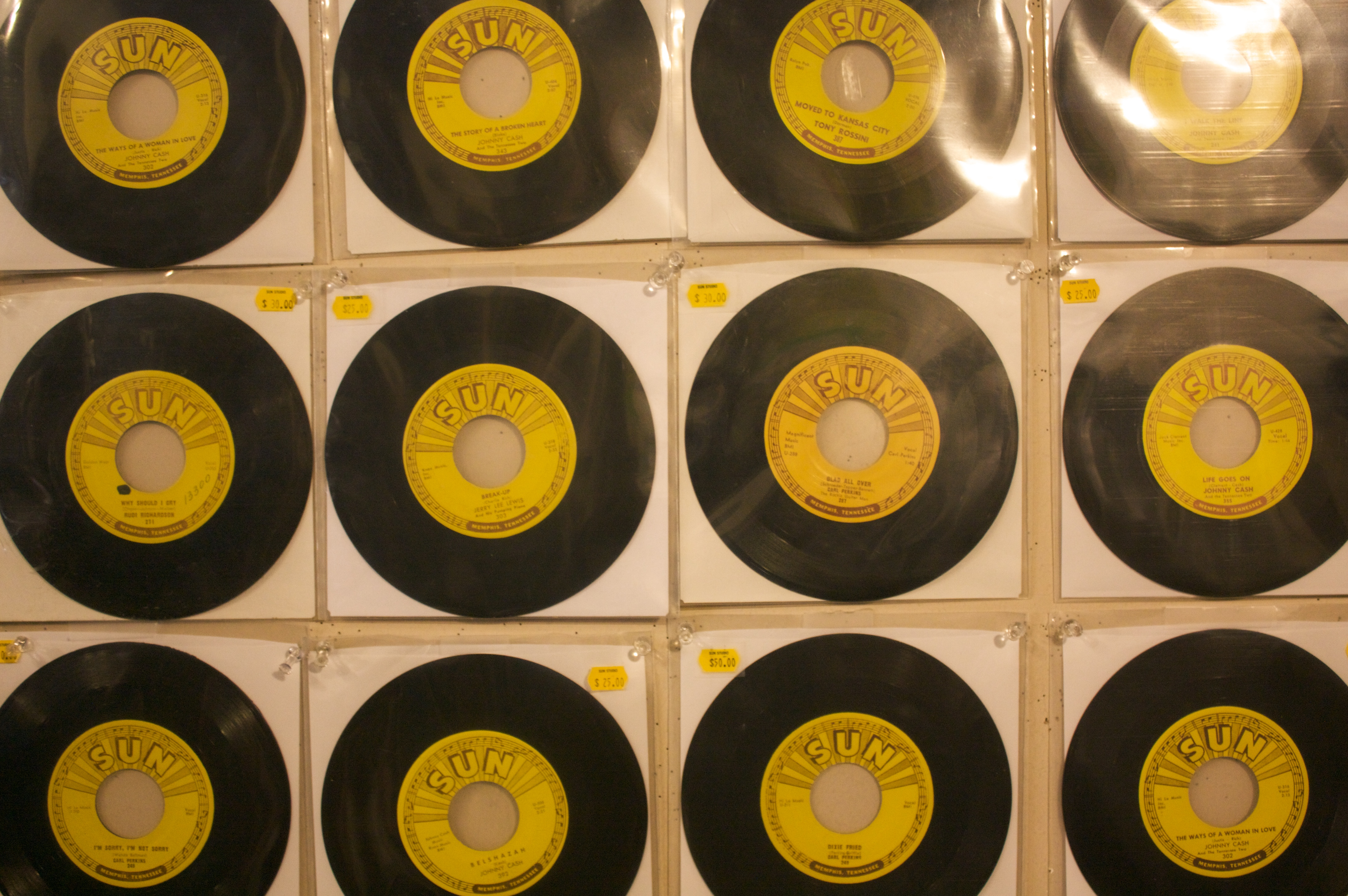 Sun Records 45s